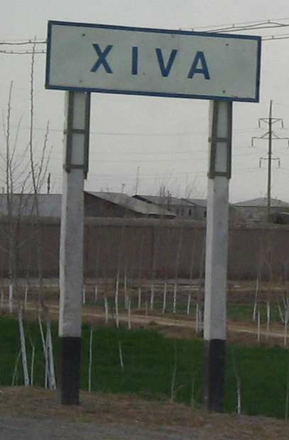 The road sign at the entrance to Khiva city